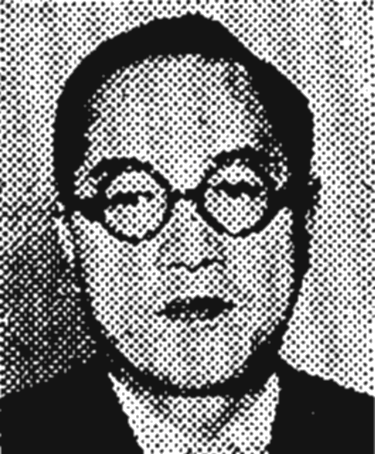 Keikichi Masuhara, former Deputy Director General of the Japanese Defence Agency (now Ministry) and Governor of Kagawa prefecture.